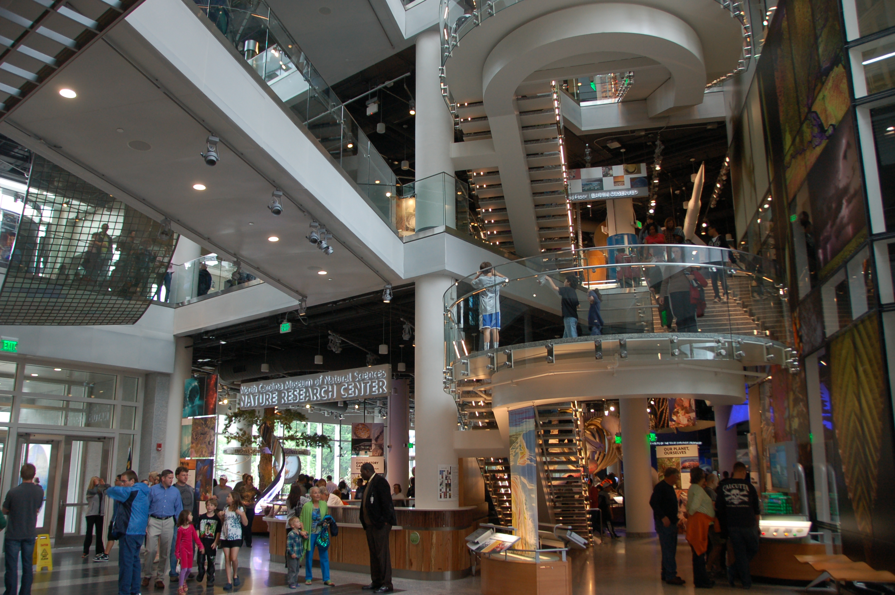 The interior staircase of the Nature Research Center wing of the North Carolina Museum of Natural Sciences in Raleigh, NC.